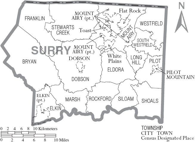 Map of Surry County, North Carolina, United States with township and municipal boundaries